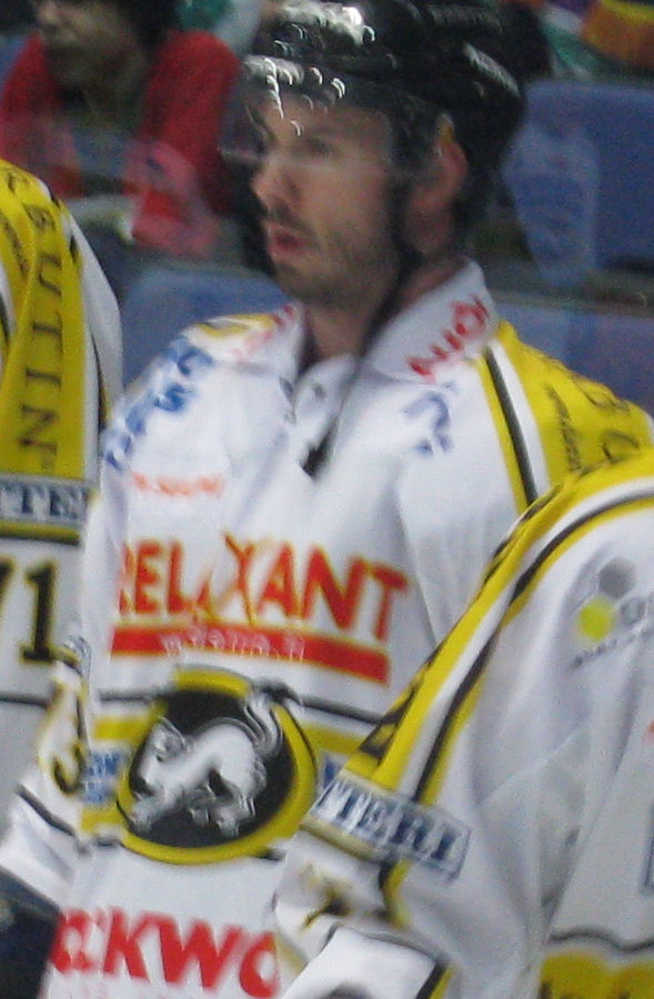 Daniel Corso of Kärpät